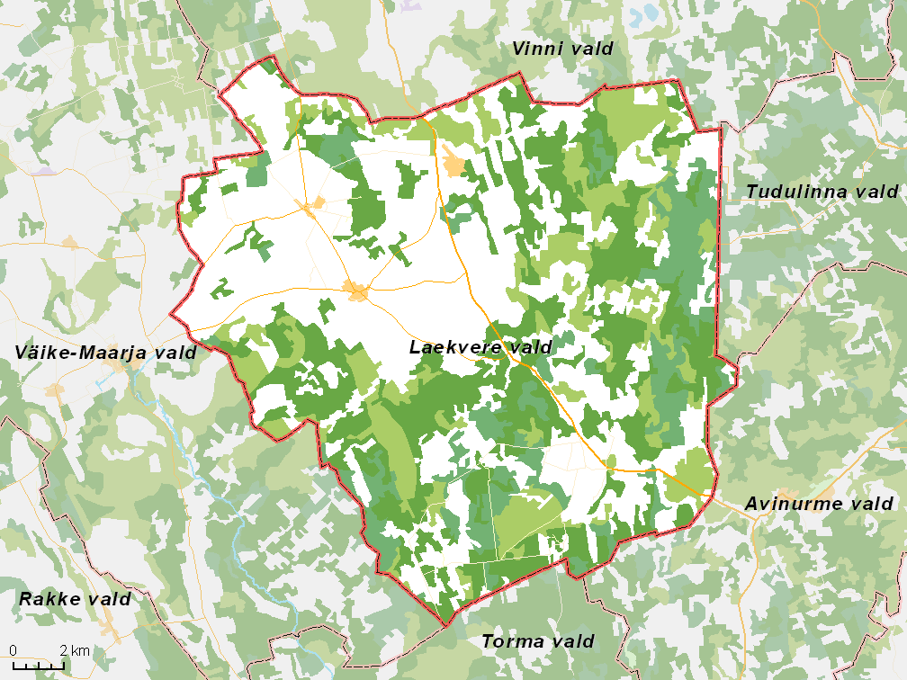 Map of municipality in Estonia